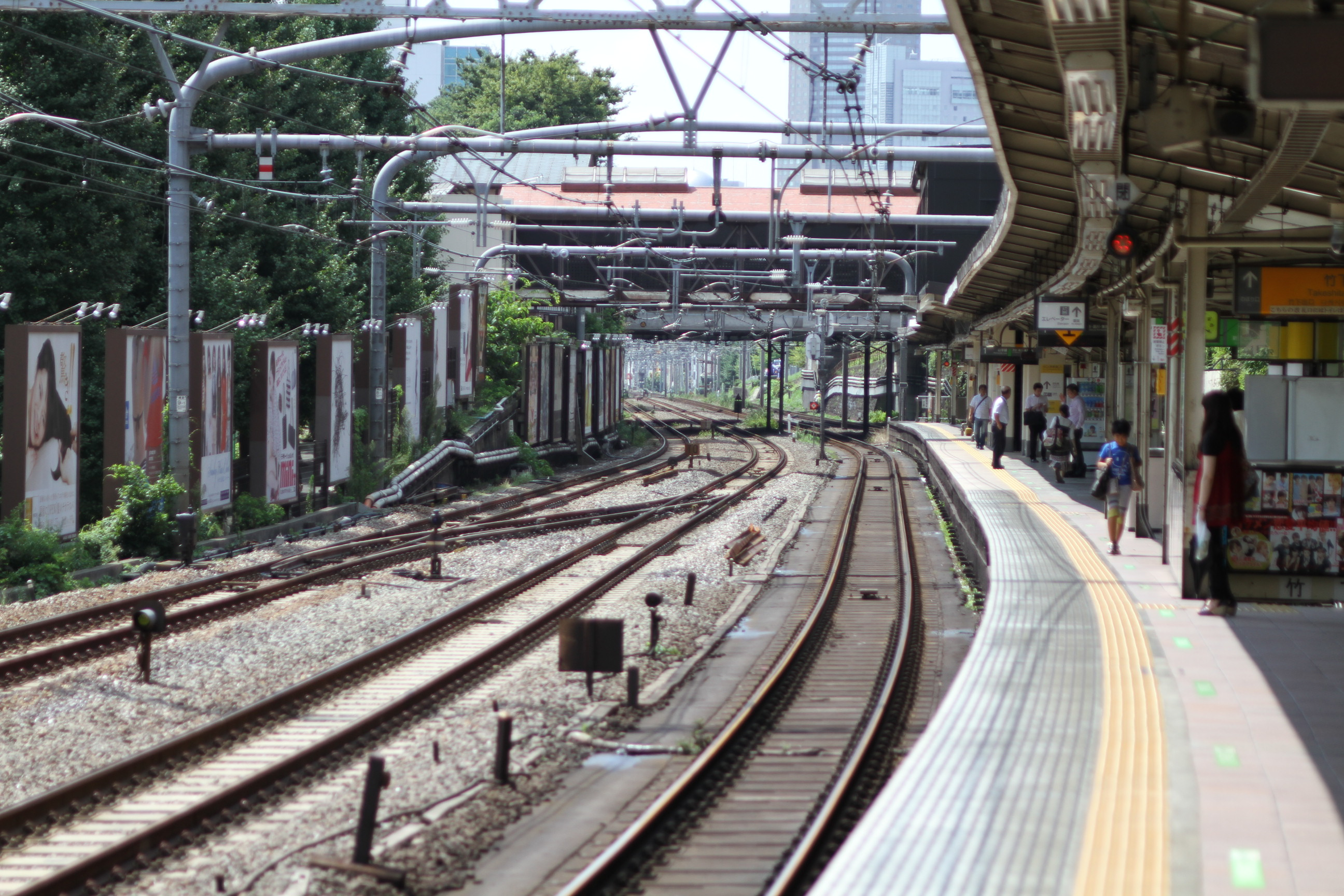 This is a view of the south-bound side of the platform at Harajuku Station